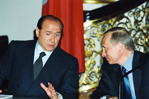 THE GRAND KREMLIN PALACE, MOSCOW. President Vladimir Putin and Italian Prime Minister Silvio Berlusconi during a joint news conference.